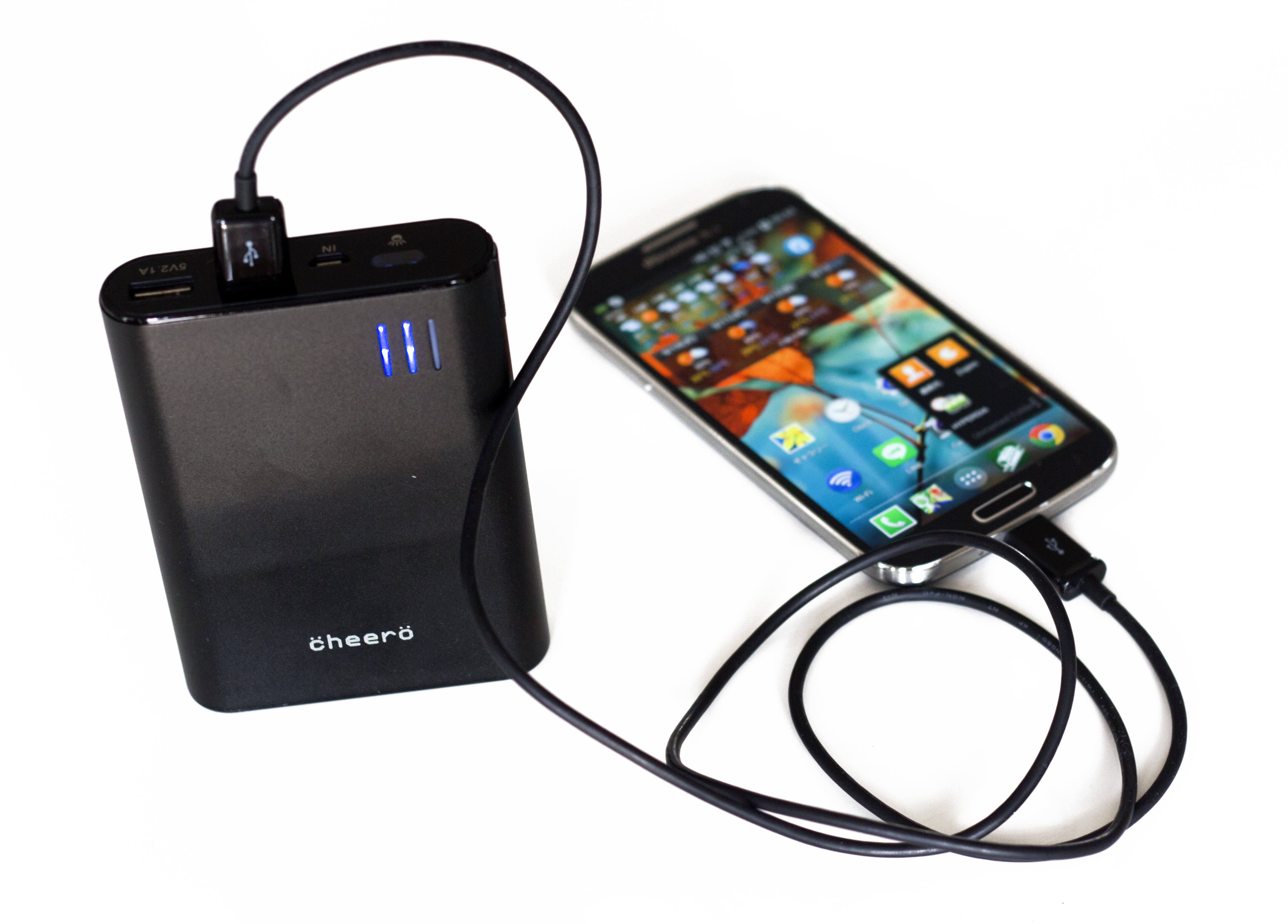 A high capacity USB external battery charger of the Japanese brand cheero, with a Samsung Galaxy S4 in the background.